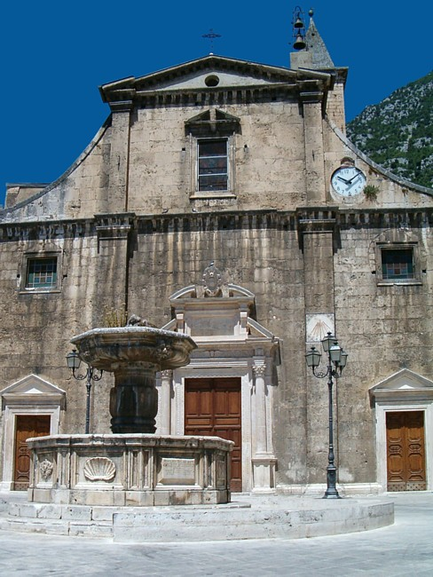 Pacentro: S. Maria della Misericordia picture take by user:Idéfix, july 2003